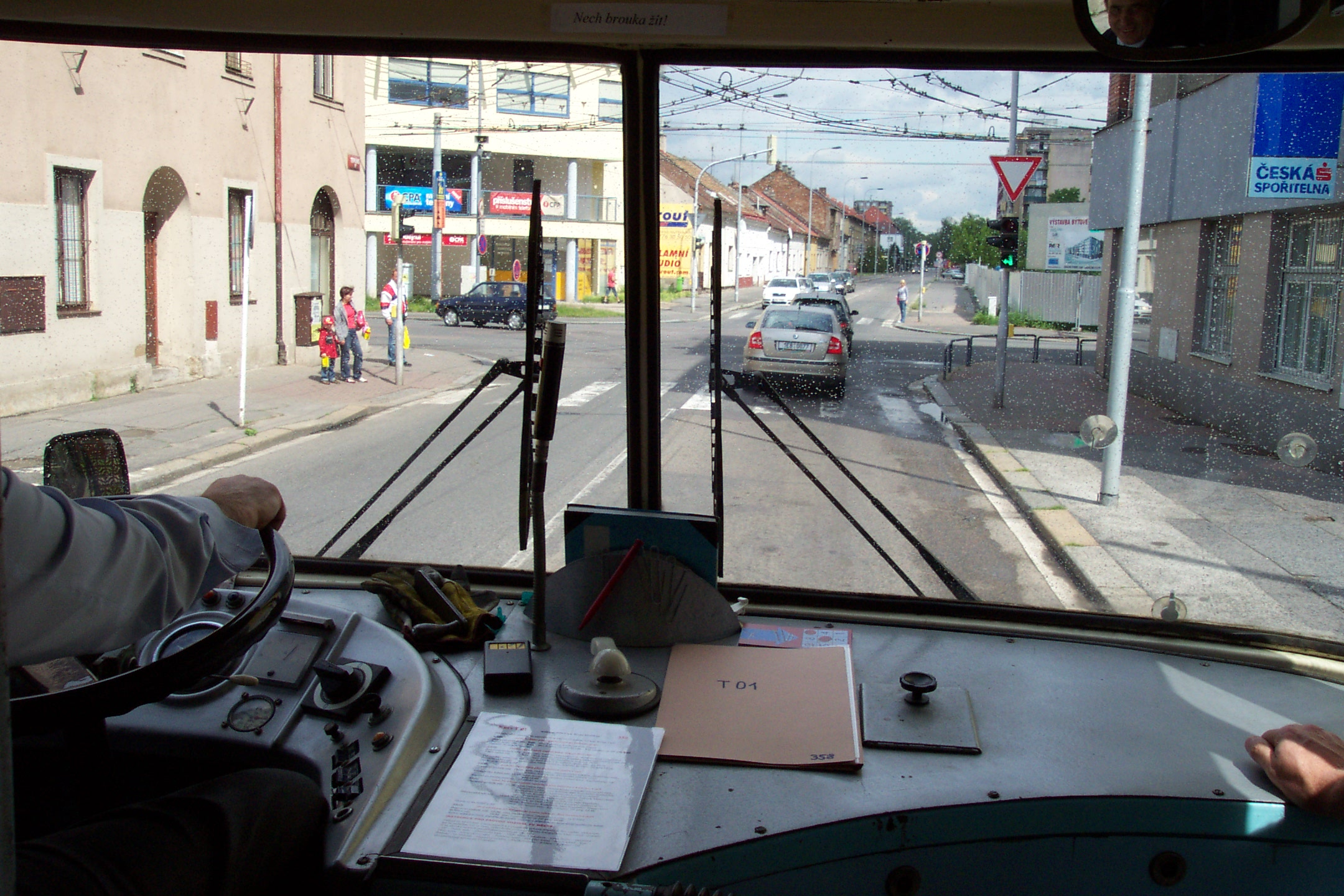 Czech trolleybus Škoda 9Tr at the 55 years of trolleybus transport in Pardubice; view from the driver's cabin.